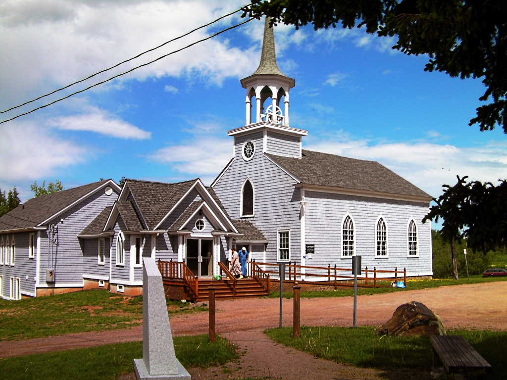 I took this photo on a trip across Canada in 2008.. This beautiful Anglican church dates from the early 19th century and is located at Westcock, N.B., just 8 km from Sackville. It has been substantially altered in the last few years with the addition of a church hall.